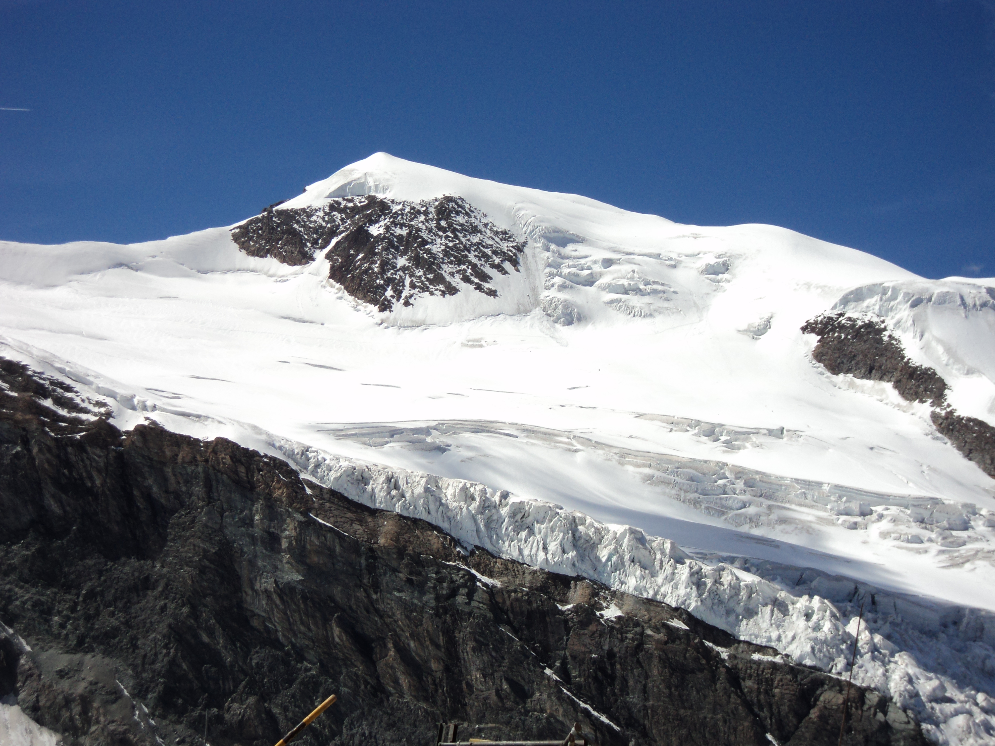 Alphubel from Mittelallalin